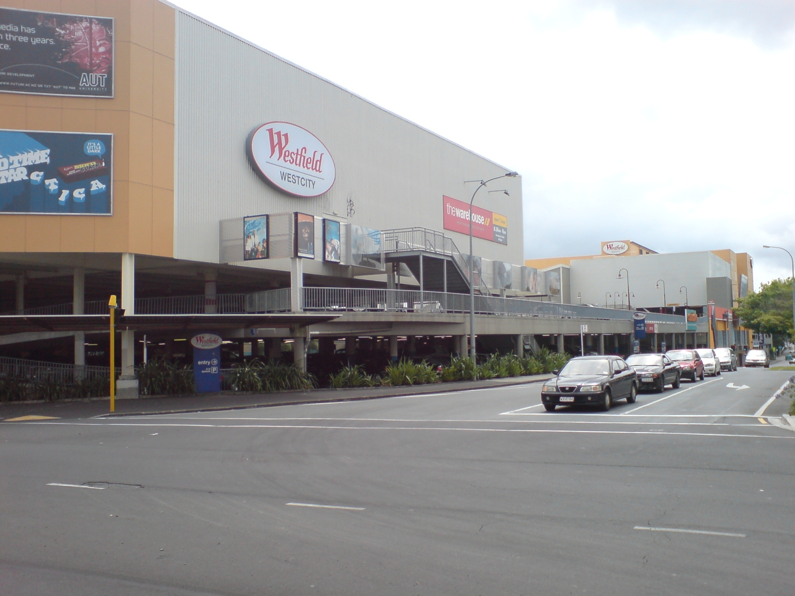 Westfield WestCity, Henderson, Auckland, New Zealand. Seen from near the railway line looking eastwards.